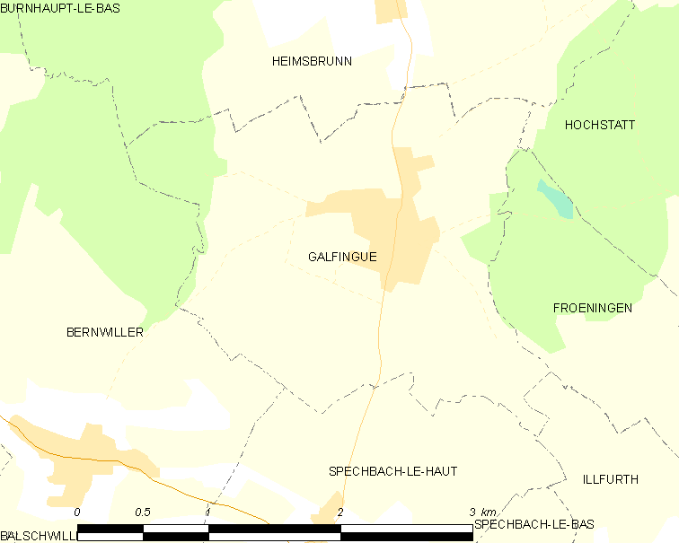 Map of French municipality